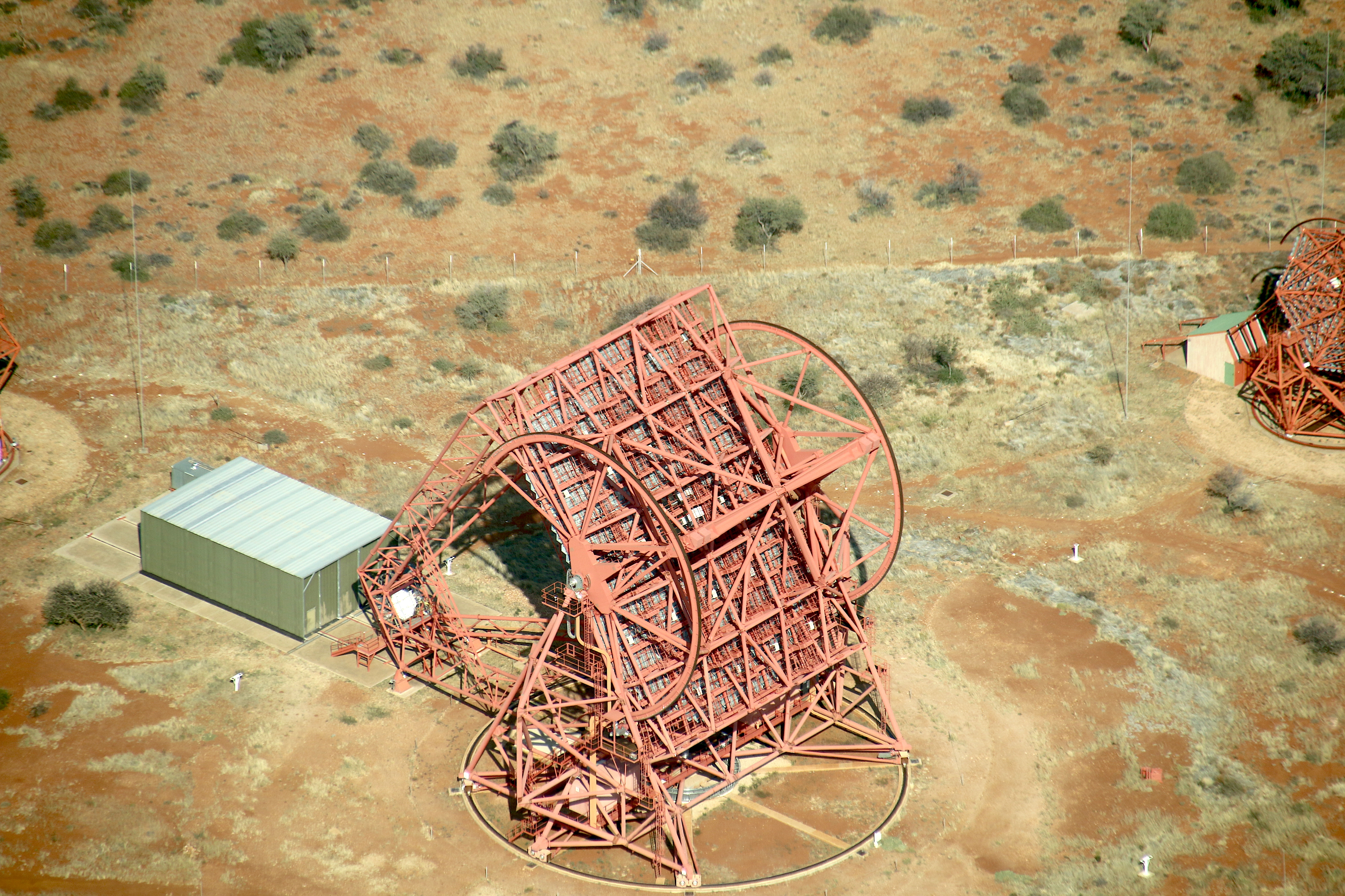 Aerial view of H.E.S.S. , Namibia (2018)